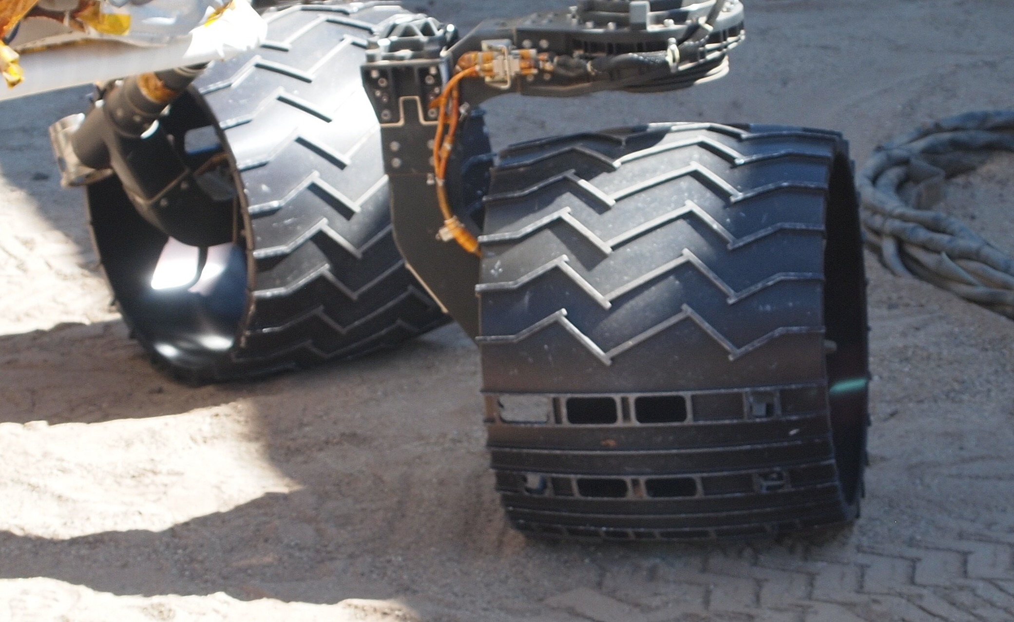 Wheels of a working sibling to Curiosity (Mars Science Laboratory rover) at the Jet Propulsion Laboratory (JPL). One of them shows the Morse code pattern represented by small (dot) and large (dash) holes. The pattern on the wheel as seen on the picture is read from right to left. The code for the first line (dot, dash, dash and dash) is for J. The second and the third lines are for P and L respectively.